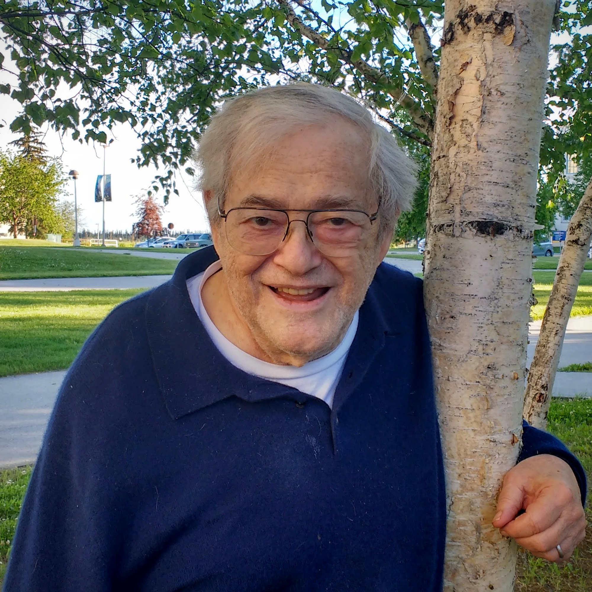 Linguist Michael E. Krauss at CoLang 2016 in Fairbanks, Alaska